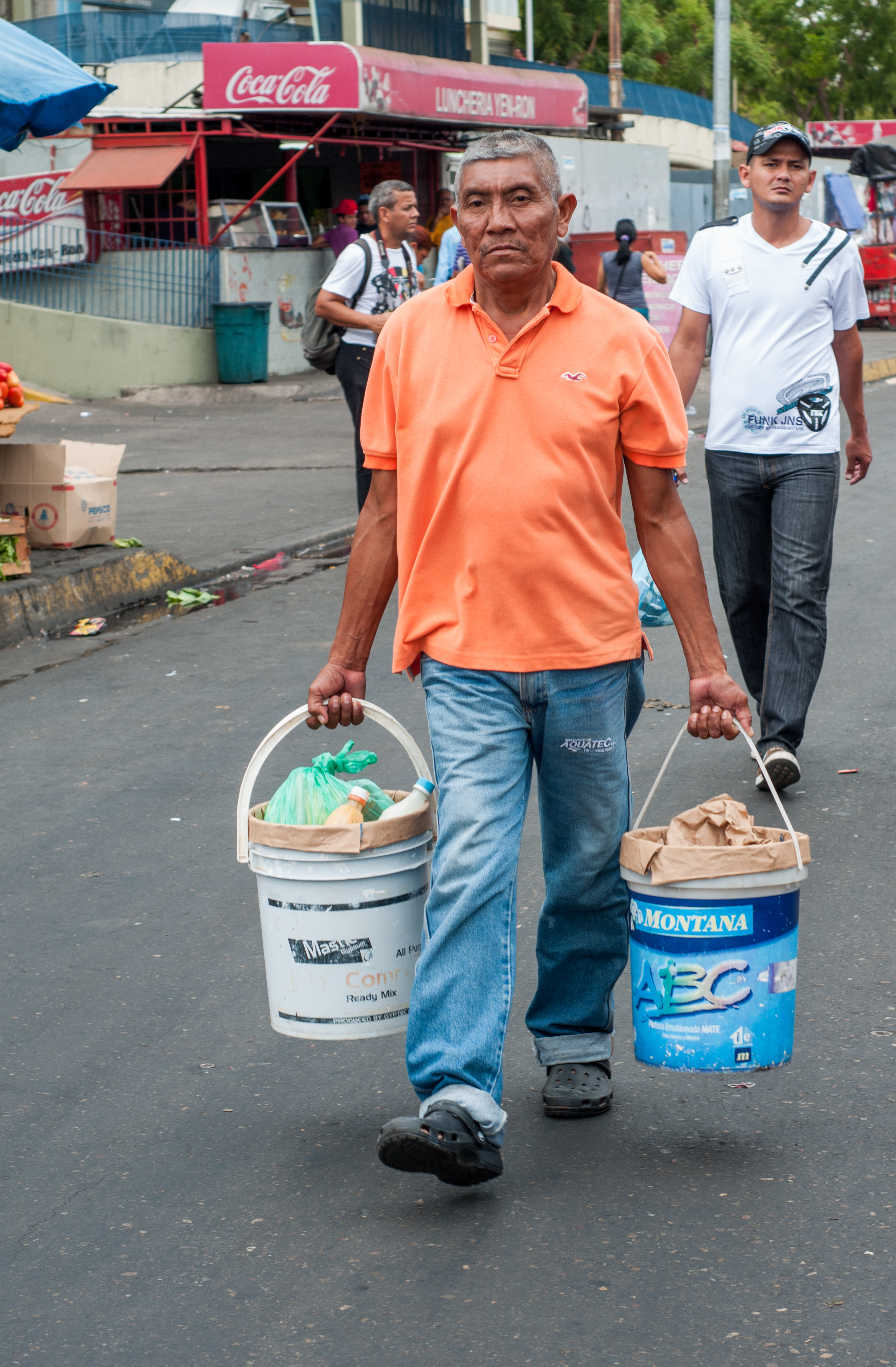 Working old man carrying buckets